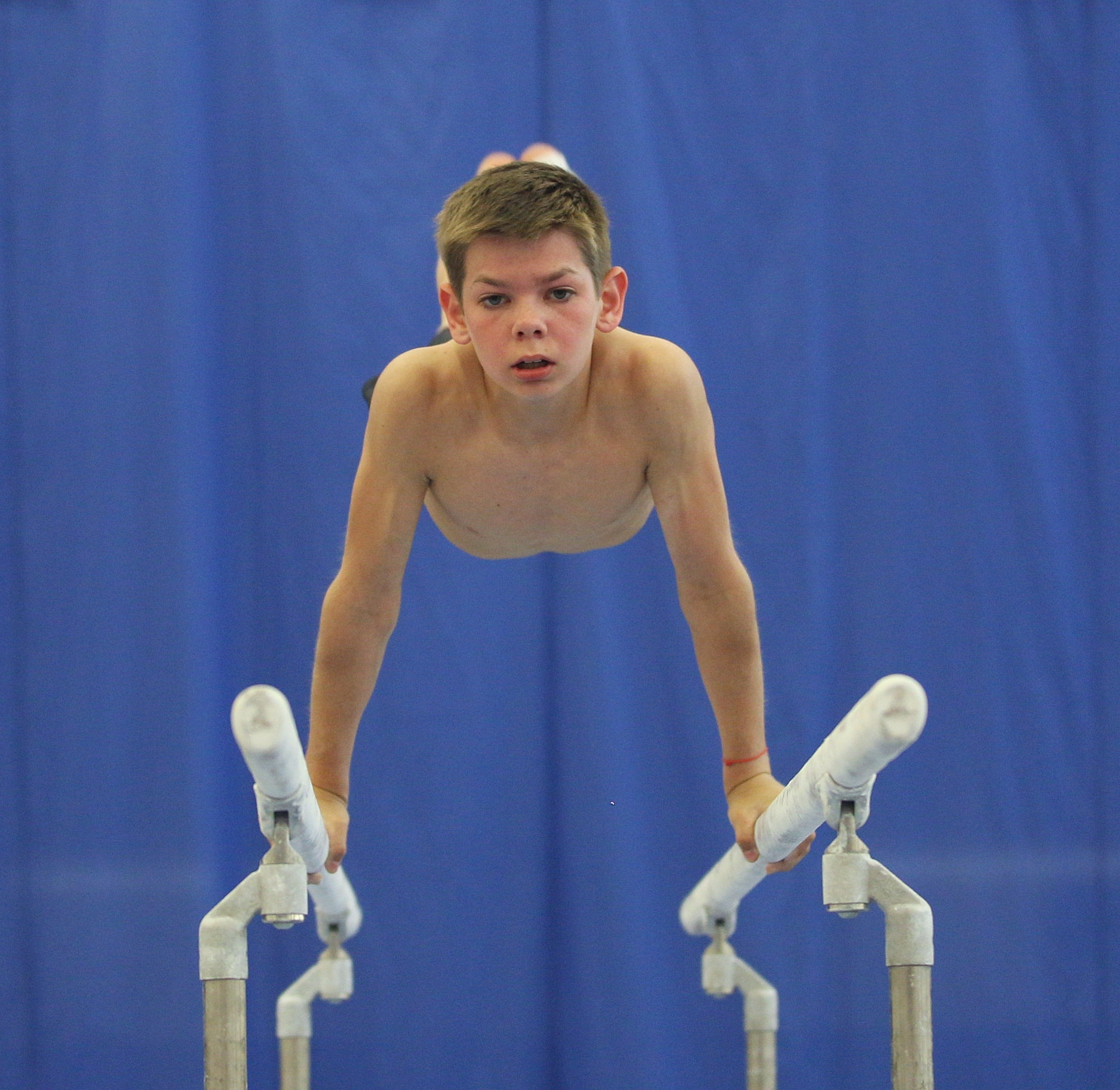 Parallel bars exercise during the training at the 5th International Junior Budapest Cup on 24 May 2019. Depicted: Dmytro Dotsenko.